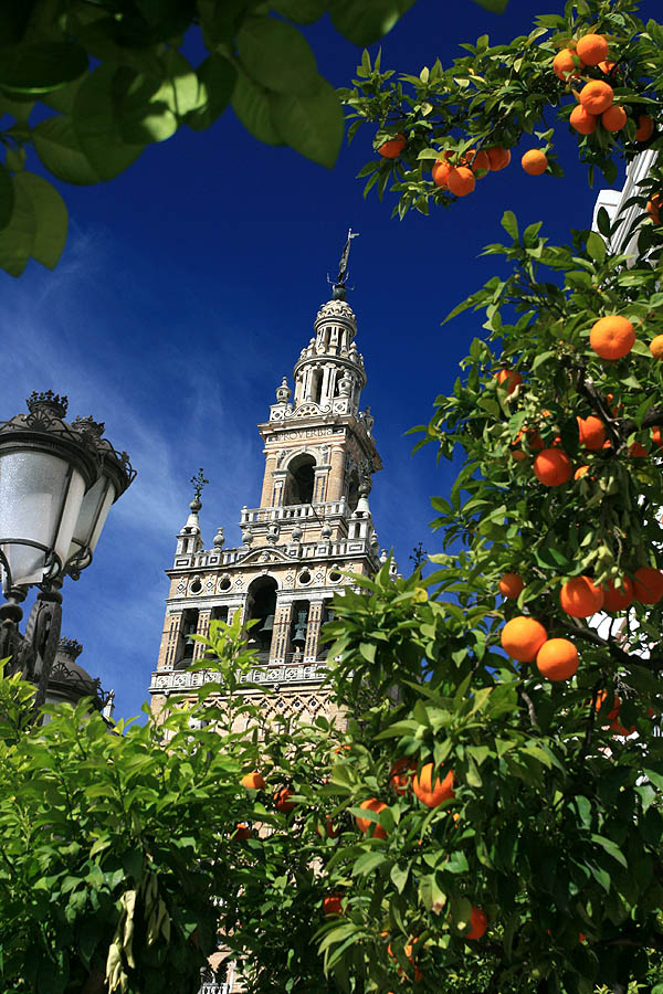 Orange groves and the Giralda Tower, one of the major landmarks of the city of Seville, Spain